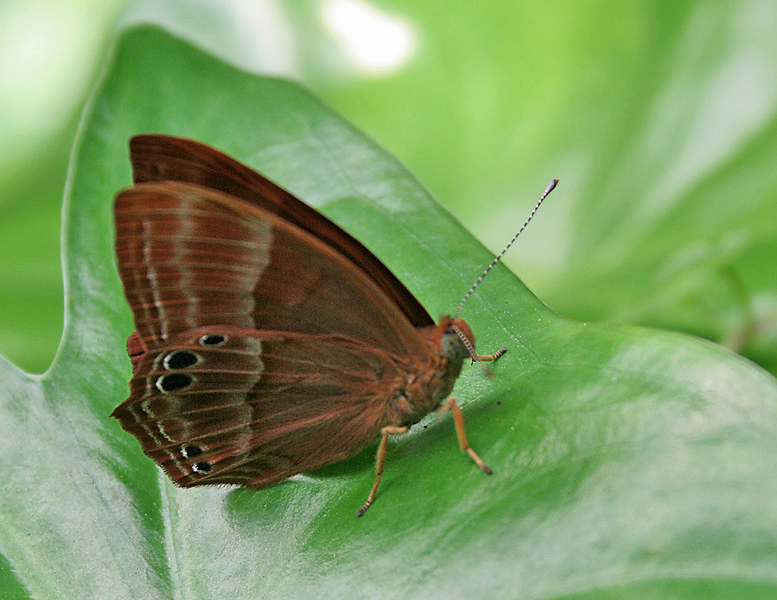 Plum Judy Abisara echerius in Kolkata, West Bengal, India.